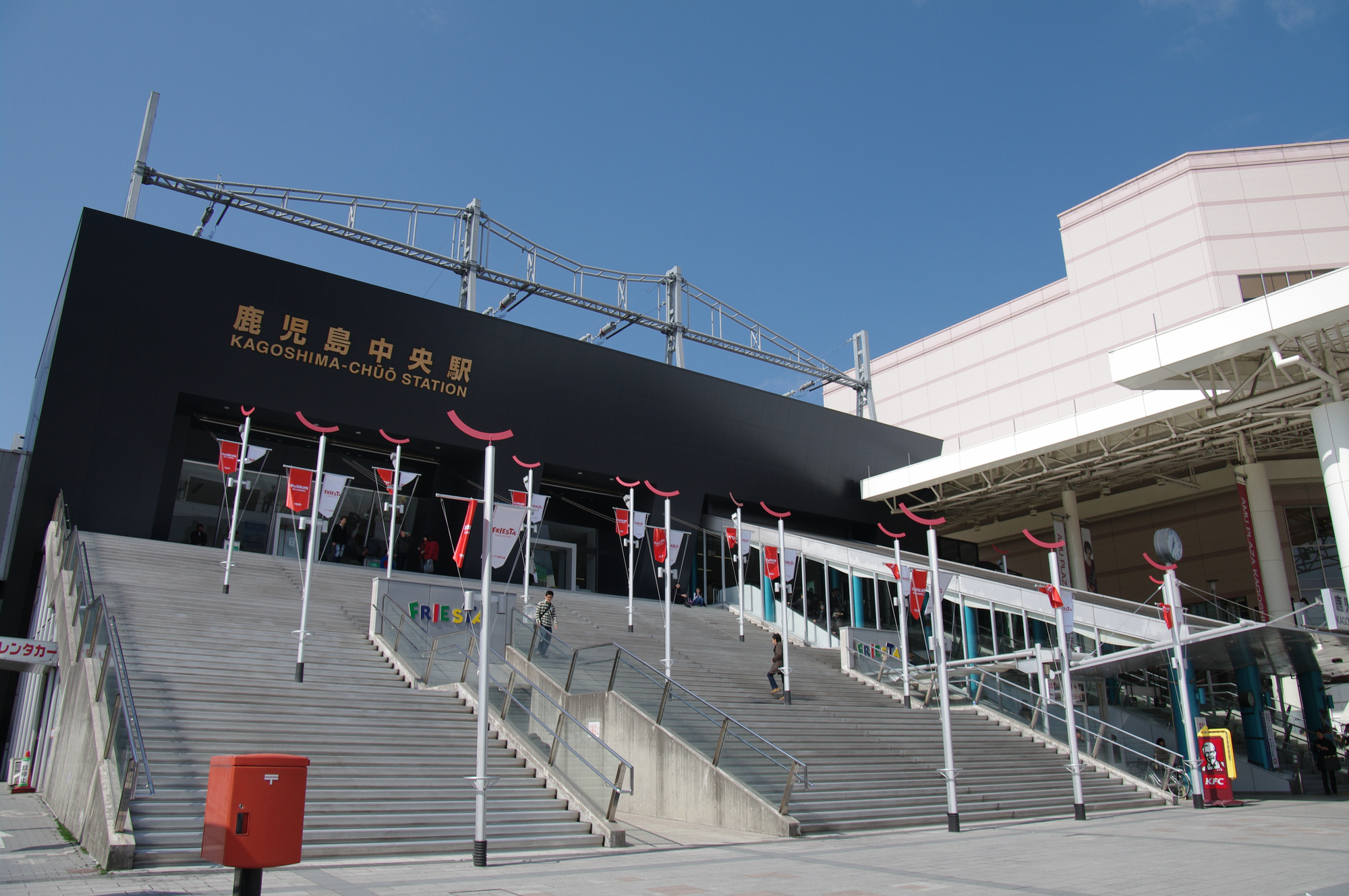 East Front of Kagoshima-Chuo Station.